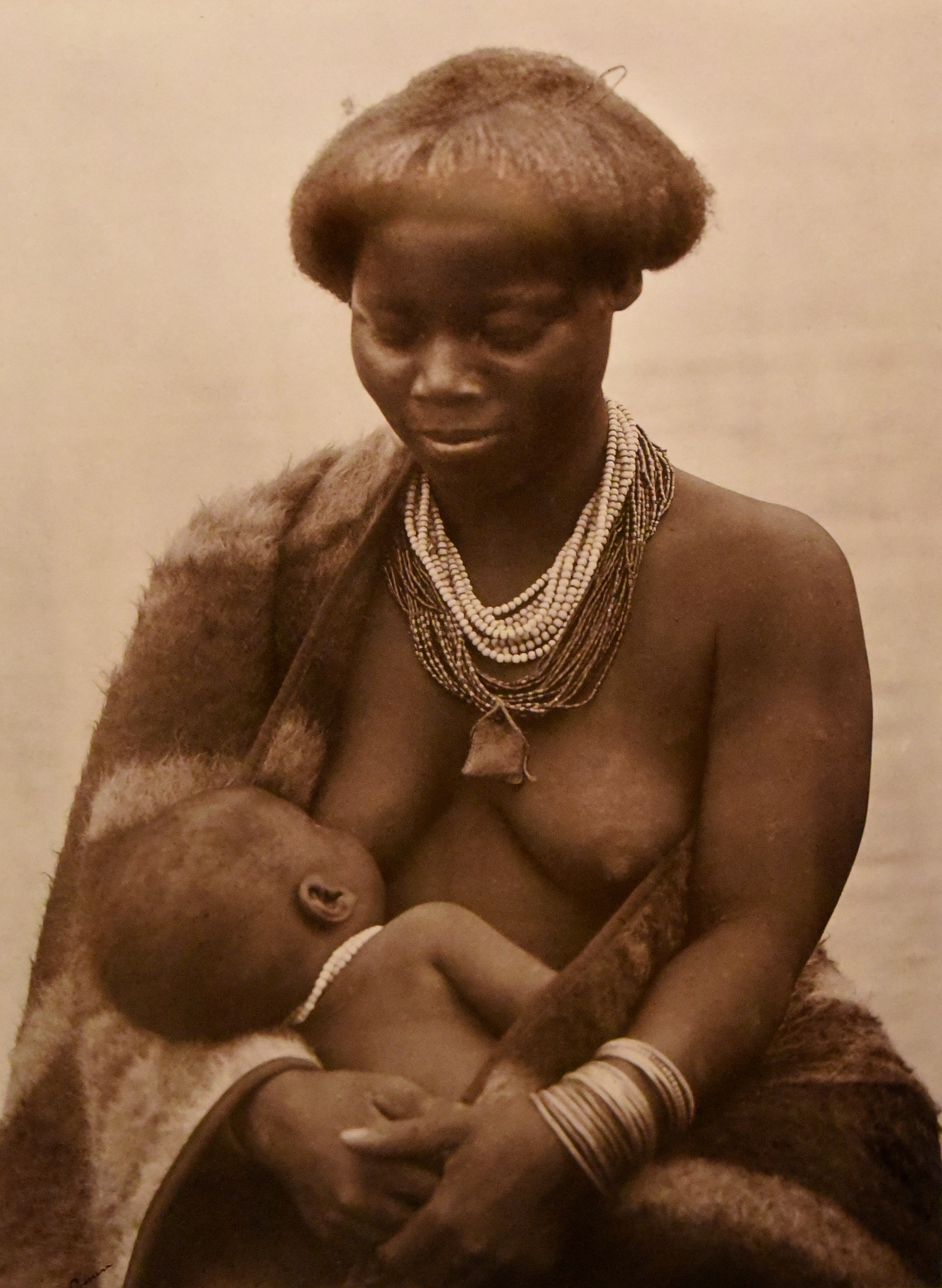 A Pedi woman breastfeeding. Alfred Duggan-Cronin. South Africa, early 20th century. The picture is housed in the Wellcome Collection and is on display. The original black&white picture is ©Wellcome Trust.